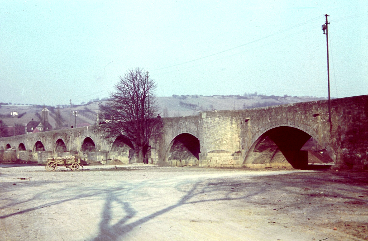 Ochsenfurt, Germany: Alte Mainbrücke 1939, before its destruction in World War II